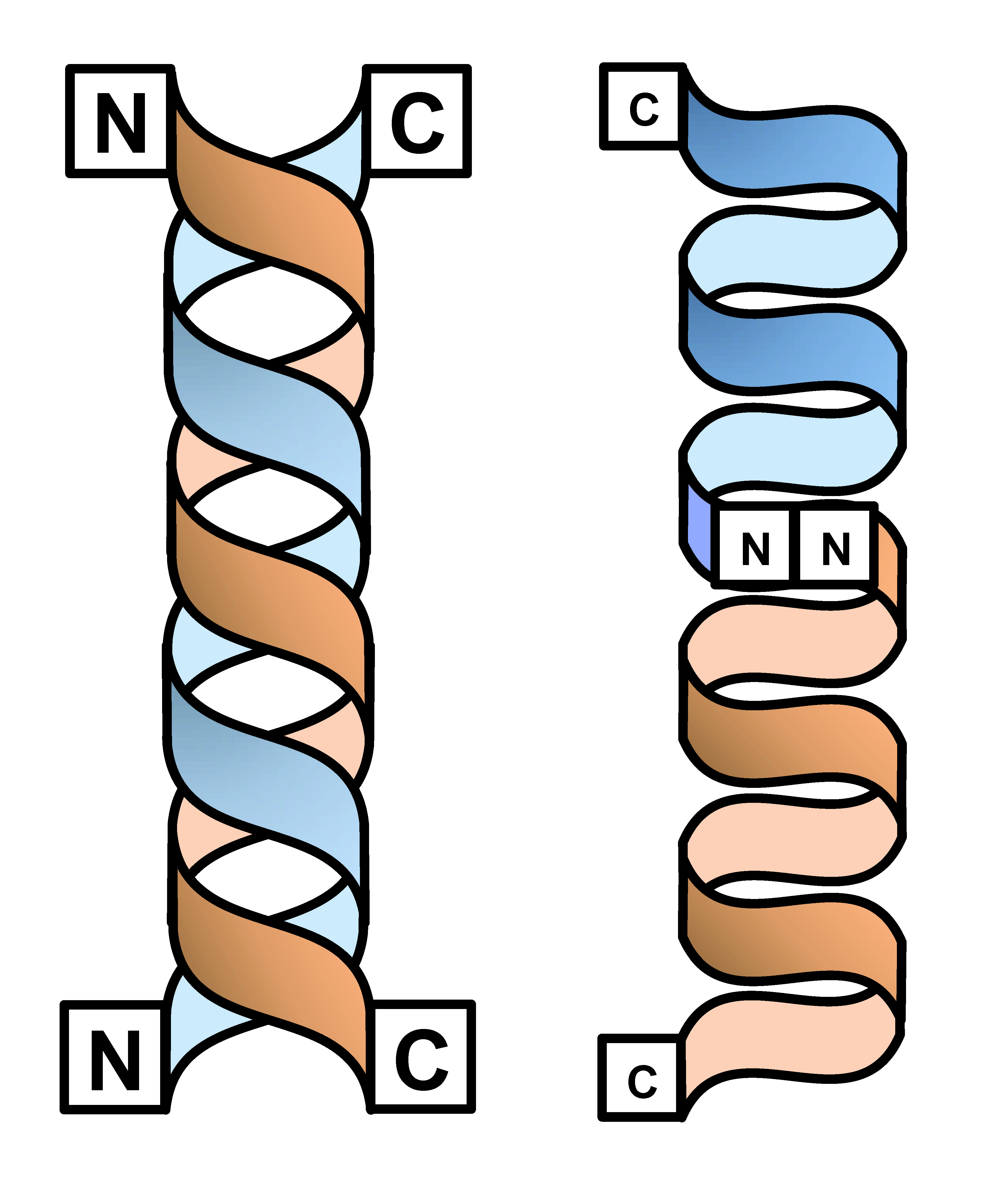 Double helical and helical dimer of gramicidin D